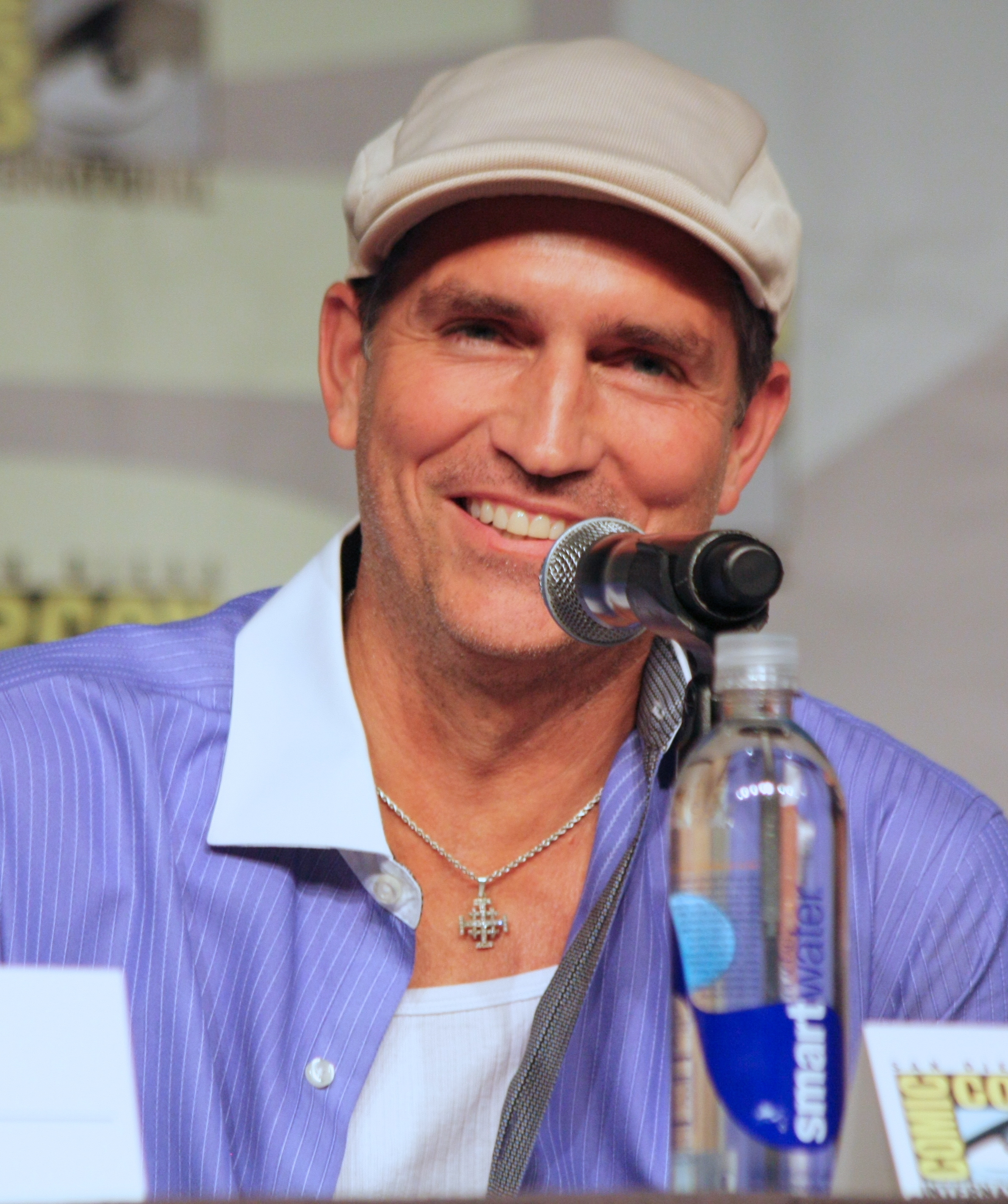 Jim Caviezel (John) Person of Interest Panel at the 2014 San Diego Comic Con